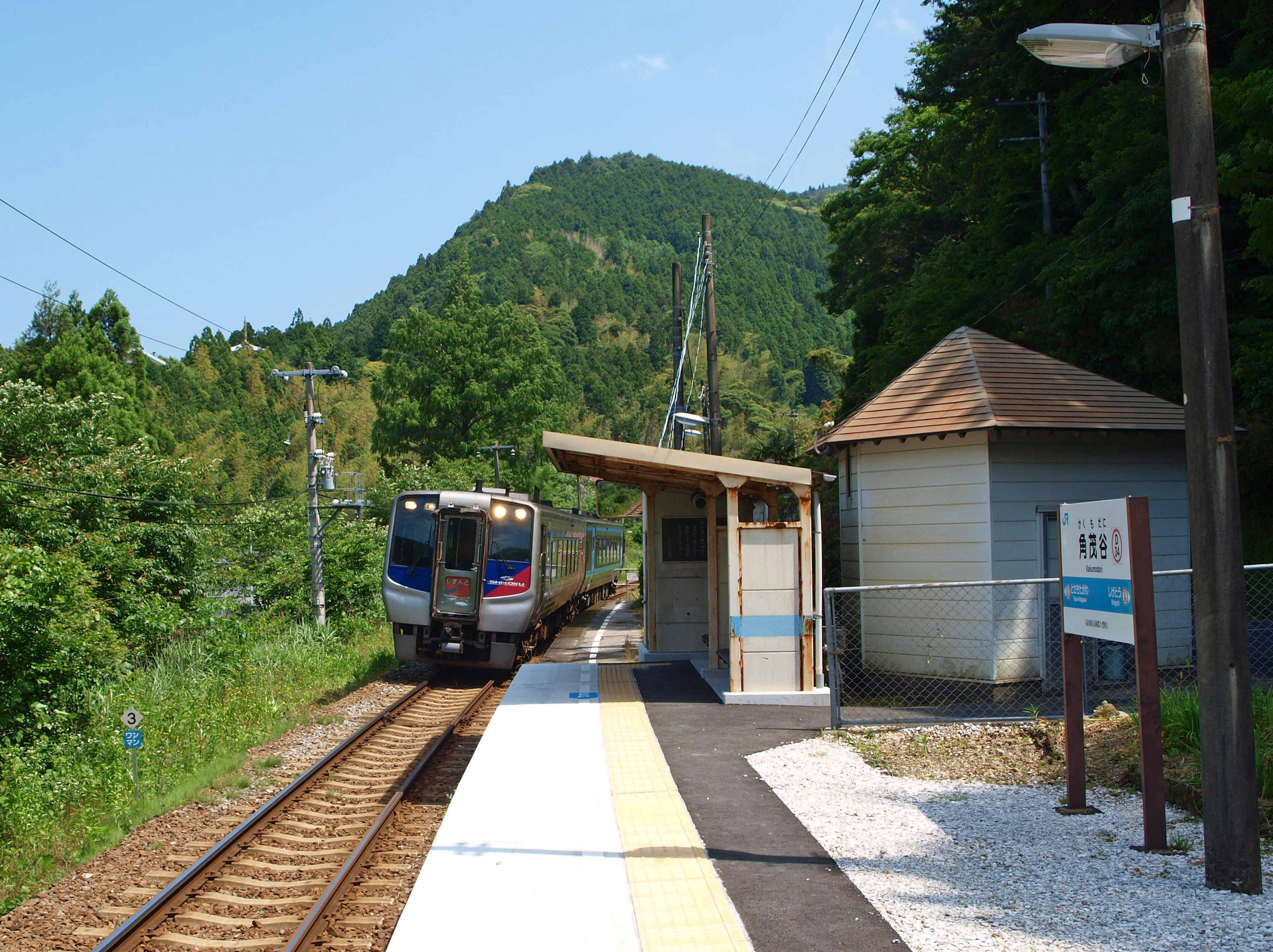 Kakumodani station, Dosan-line, JR Shikoku, Japan